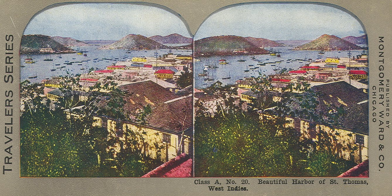 "Beautiful Harbor of St. Thomas, West Indies". (now Saint Thomas, United States Virgin Islands)